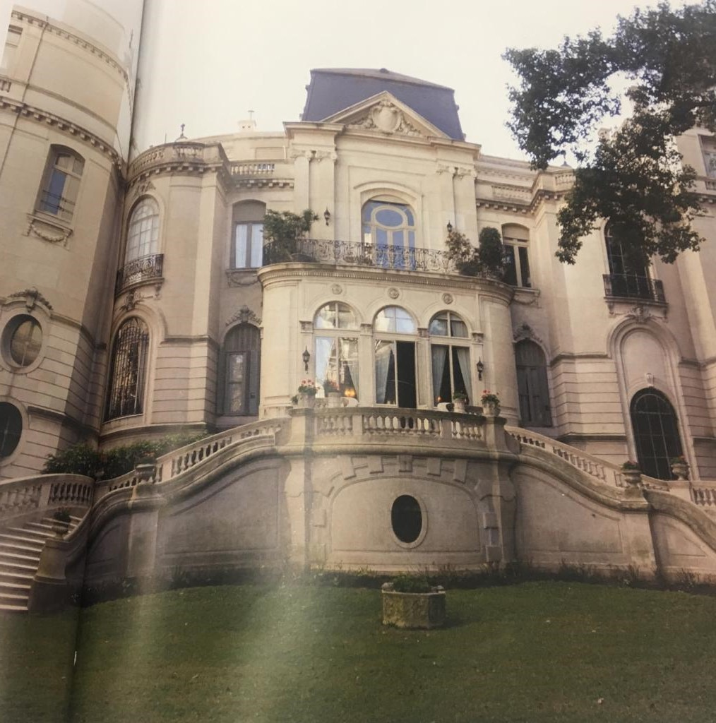 Pereda Palace